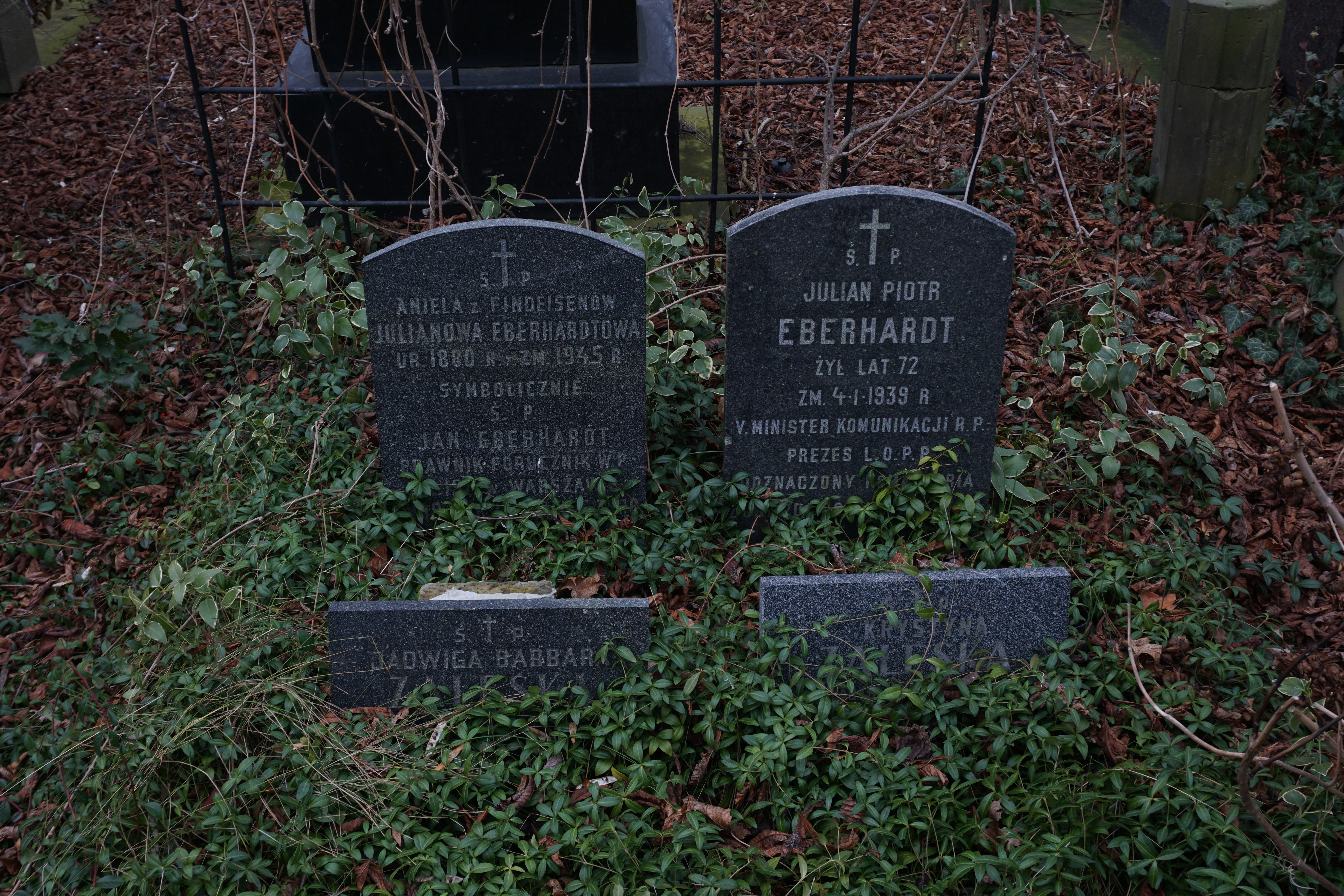 The grave of Julian Eberhardt at the Evangelical-Augsburg Cemetery in Warsaw (avenue 12, grave 38)